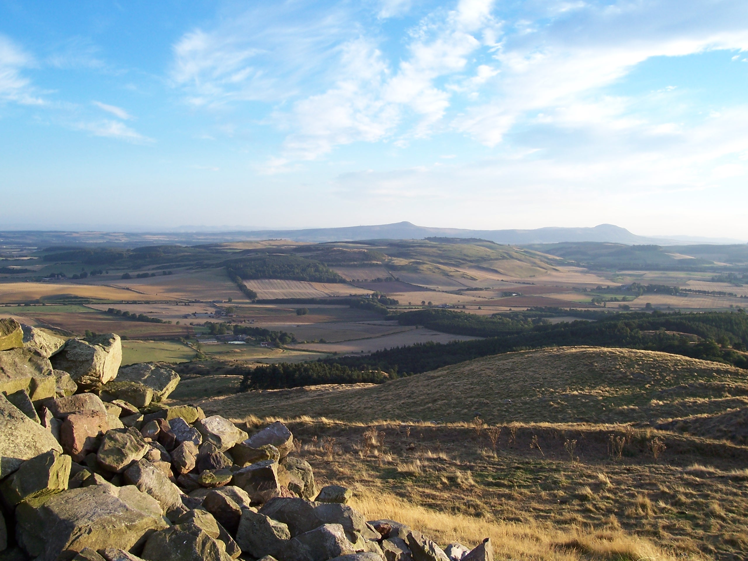 The view south west from Norman's Law Summary Description: North East Fife Source: Self made Created: 6 September 05 Taken by: Stuart Westwater